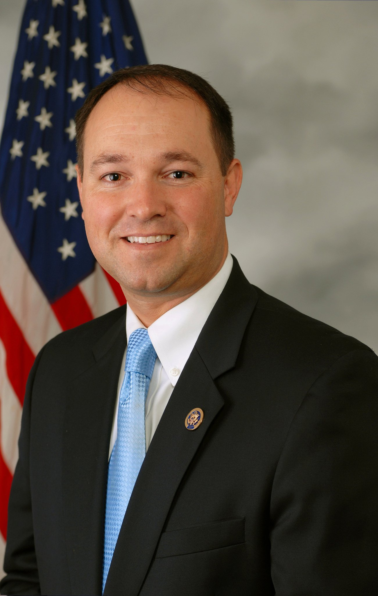 Official portrait of Congressman Marlin Stutzman (R-IN).